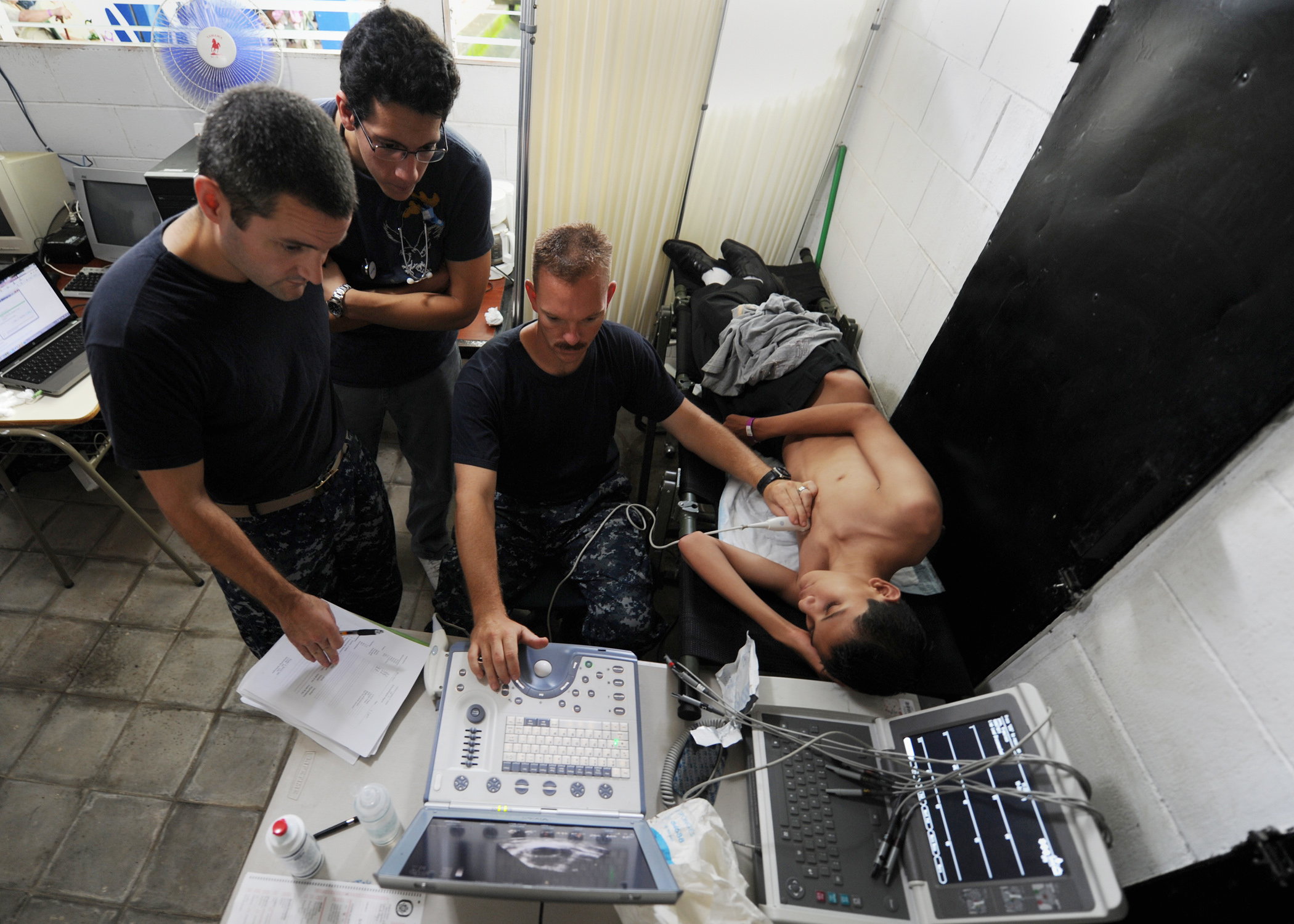 ACAJUTLA, El Salvador (July 18, 2011) Lt. Cmdr. Brad Serwer, left, and Hospital Corpsman 1st Class Benjamin Stewart perform an echocardiogram on a patient as Salvadoran medical student Alfonso Rodriguez, center, watches during a Continuing Promise 2011 community service medical event at the Instituto Nacional Acajutla. Continuing Promise is a five-month humanitarian assistance mission to the Caribbean, Central and South America. (U.S. Navy photo by Mass Communication Specialist 1st Class Brian A. Goyak/Released)